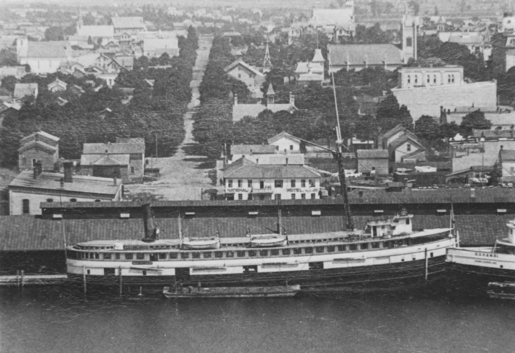 The steamer Michigan prior to her sinking